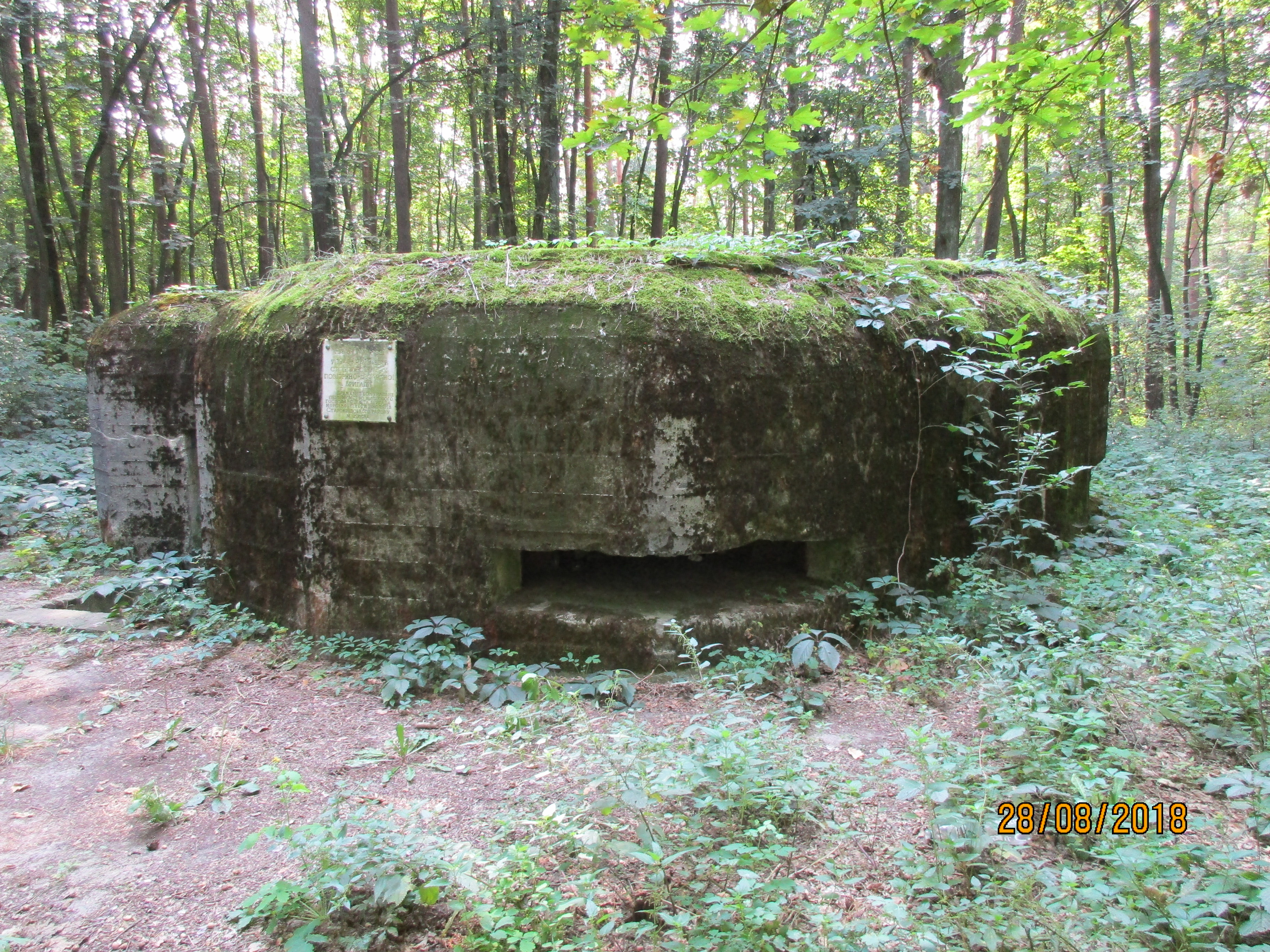 Pillbox 417 (Kiev Fortified Region), North-West view